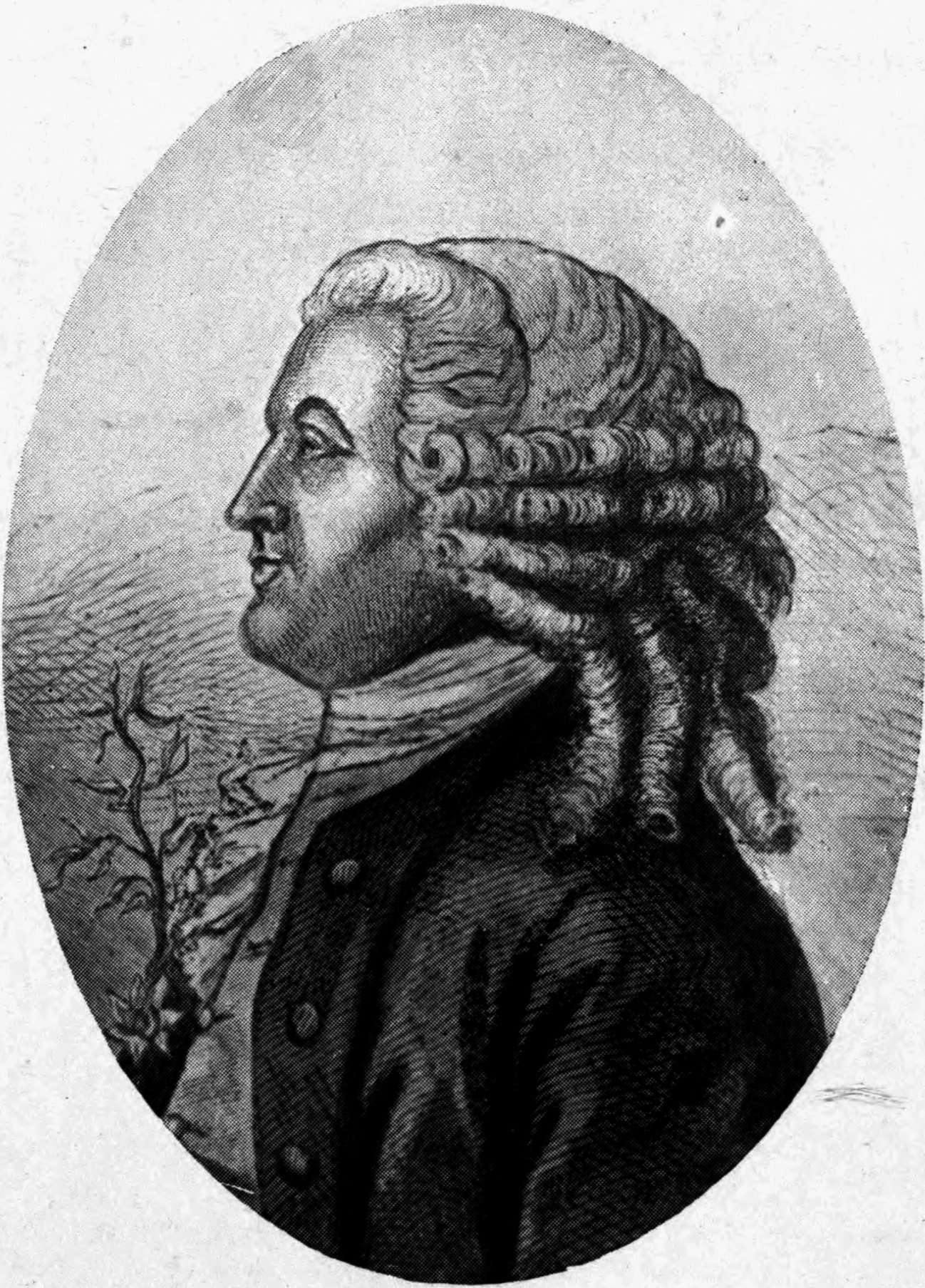 Portrait of Carl Linnaeus from the book Biographies of Scientific Men